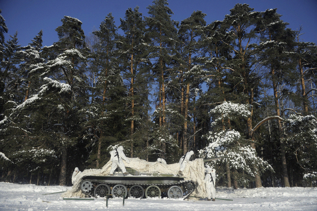 “Military exercises of Guards Engineer Brigade and Engineer Camouflage Regiment of Russian army”. Soldiers cover tank with camouflage net at the military exercises of Guards Engineer Brigade and Engineer Camouflage Regiment of Russian army.